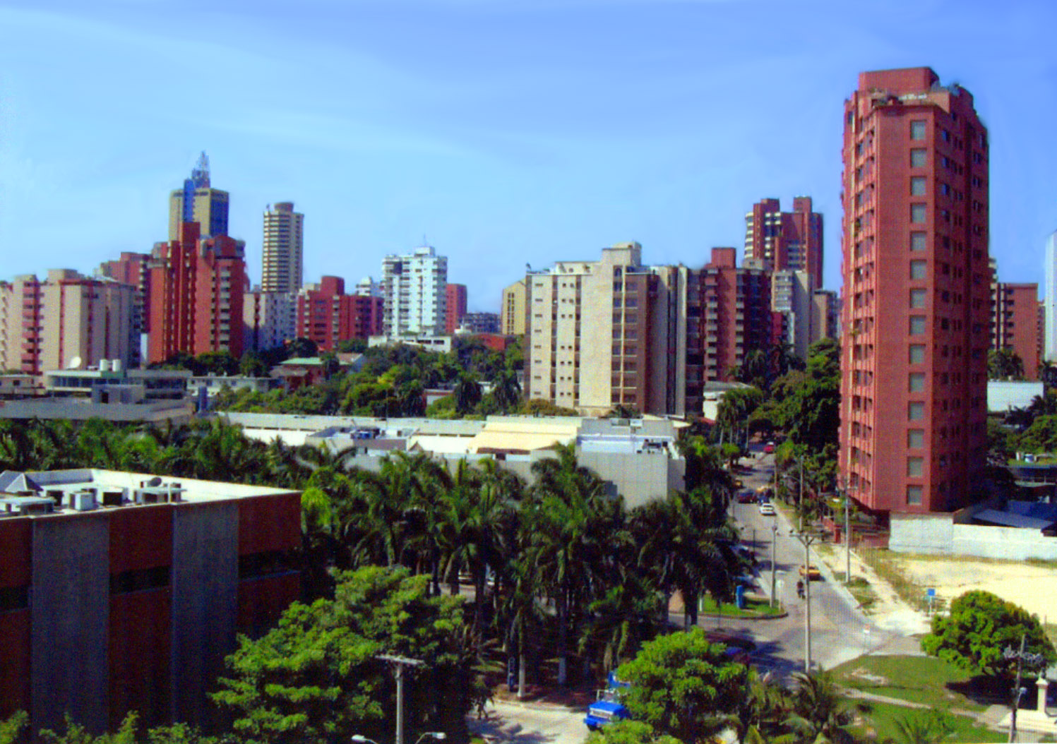 Looking North to the Alto Prado Neighborhood from Villa Country